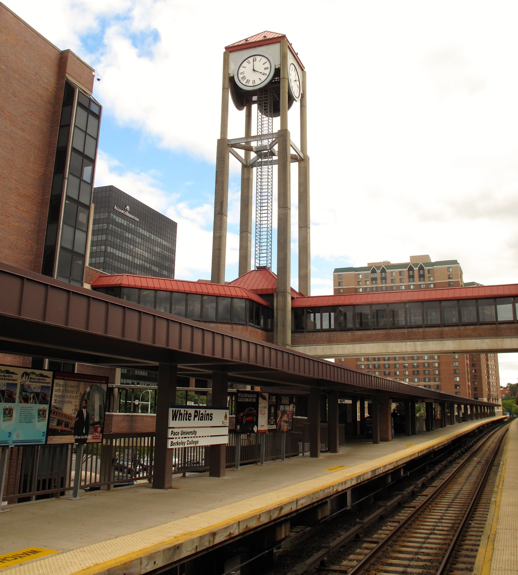 Train Station in the City of White Plains